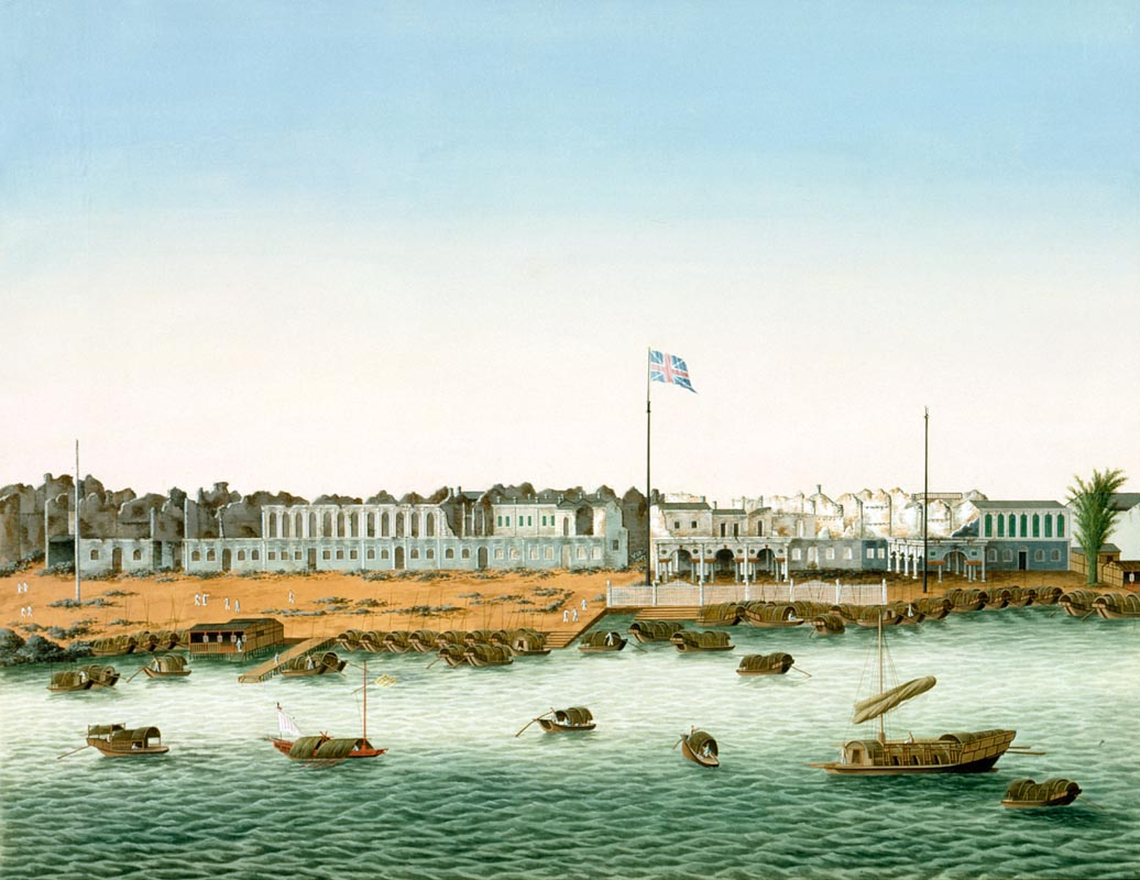 Canton after the 1822 fire. Gouache and watercolor on paper.